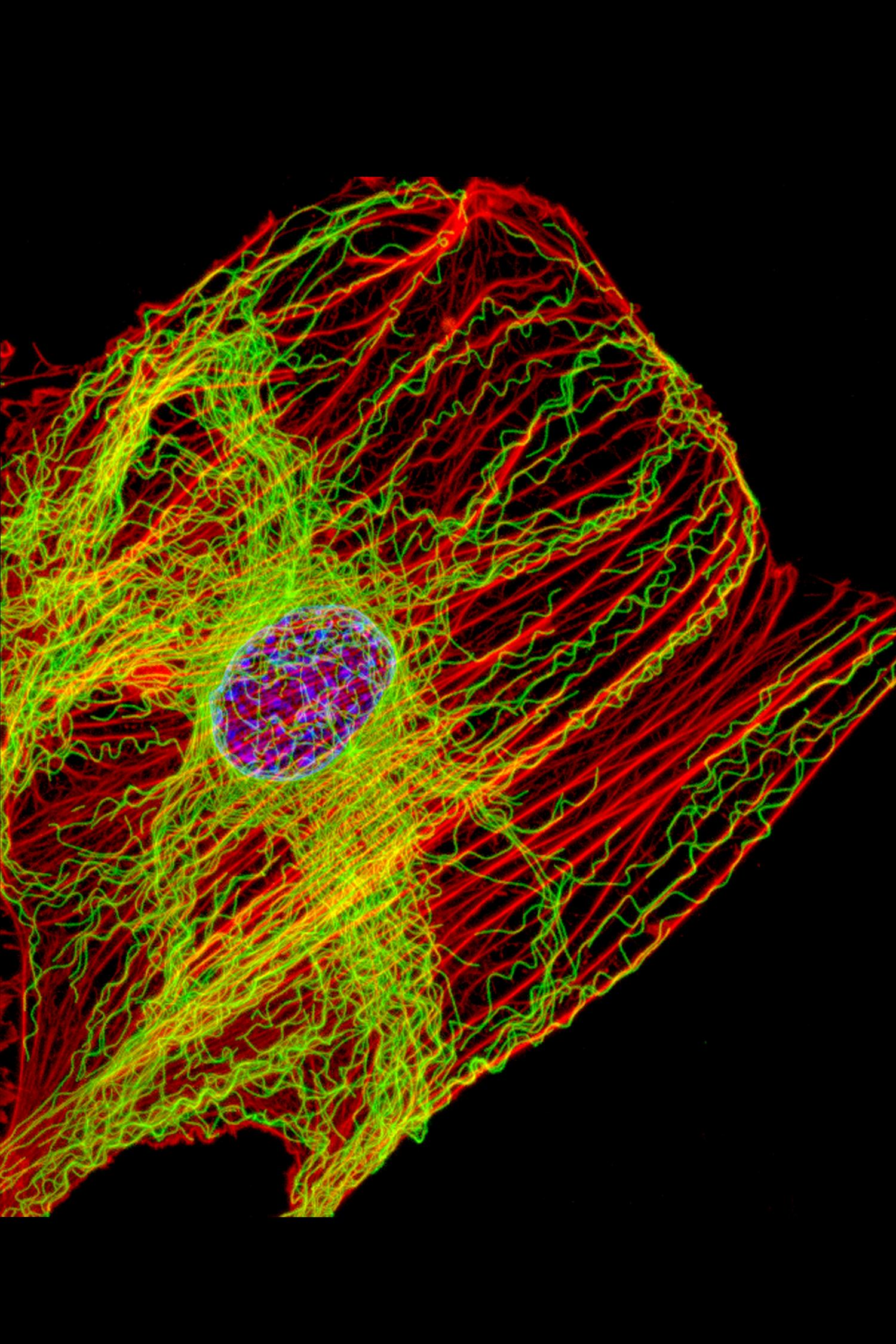 This image shows a normal fibroblast, a type of cell that is common in connective tissue and frequently studied in research labs. This cell has a healthy skeleton composed of actin (red) and microtubles (green). Actin fibers act like muscles to create tension and microtubules act like bones to withstand compression.